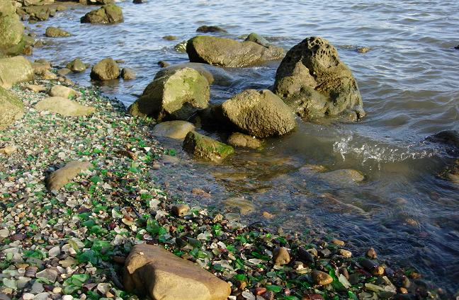 Glass Beach in Benicia, California